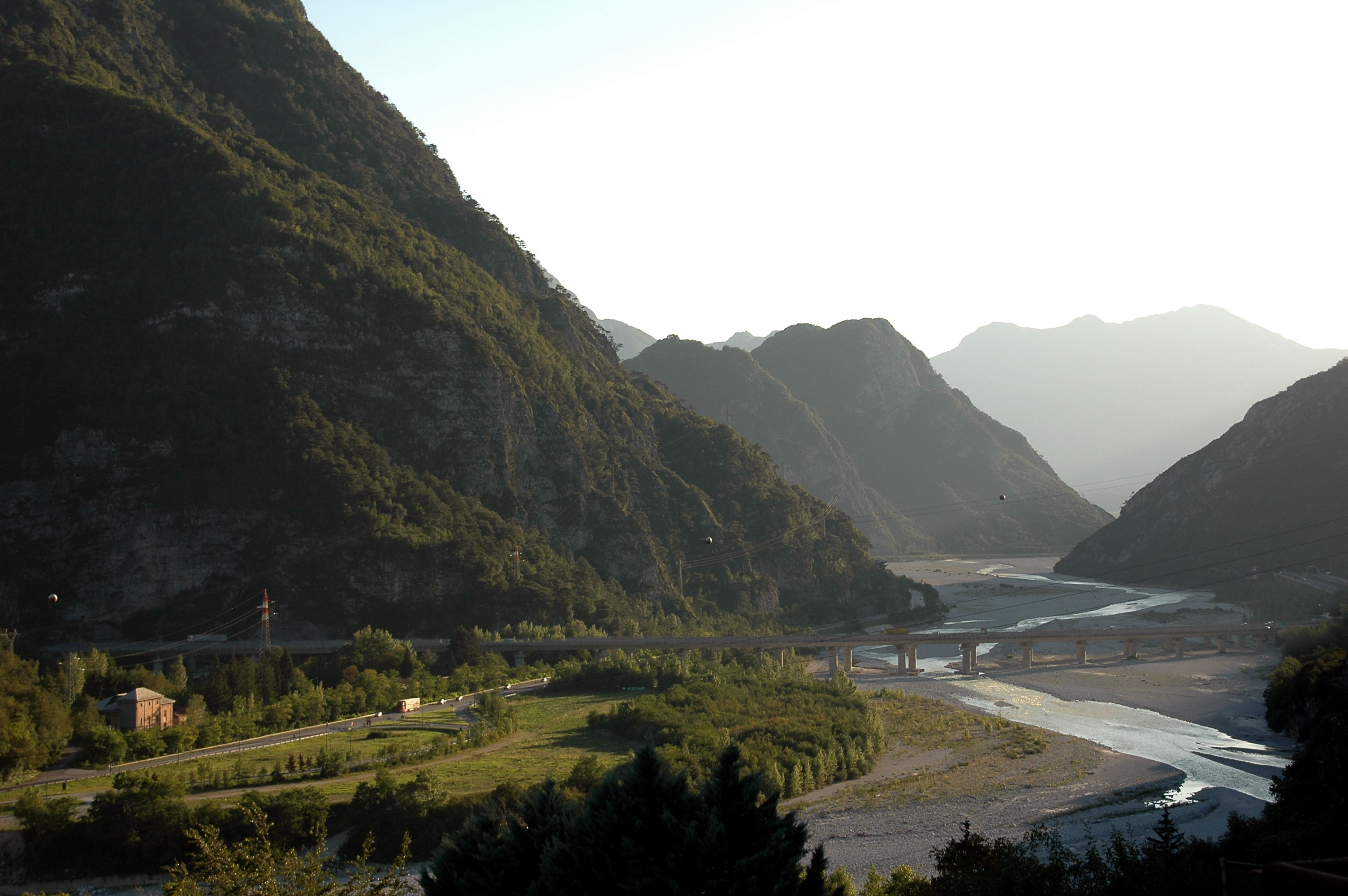 View at the Fella valley (Canal del Ferro) from the Moggio Udinese / Friuli-Venezia Giulia / Italy / EU.